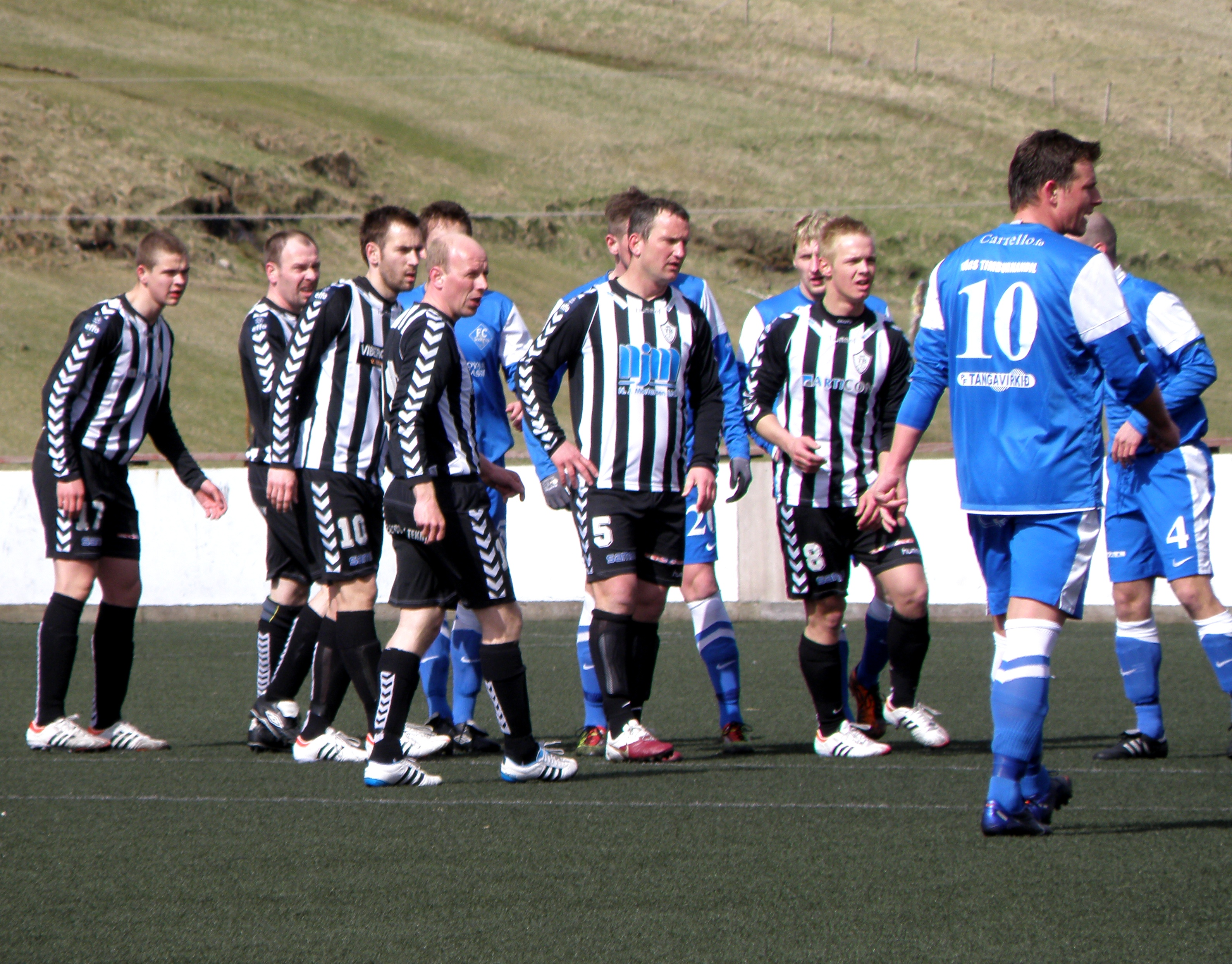 Football match in Effodeildin (the best division of the Faroe Islands) in May 2012 between FC Suðuroy (in blue/white) and TB Tvøroyri (in black/white). Føroyskt: Fótbóltsdystur millum FC Suðuroy og TB í Effodeildini í mai 2012. Dysturin endaði við javnleiki 1-1.